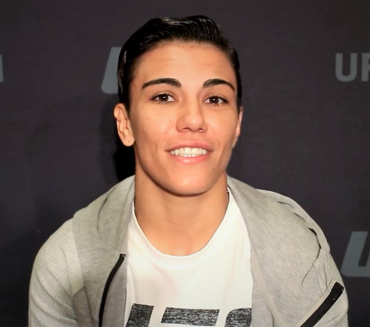 Jessica Andrade Pre-Fight UFC 228 Interview Brazilian mixed martial artist Jessica Andrade Pre-Fight Ultimate Fighting Championship 228 Interview Visit Europe's biggest MMA website Follow us on our Social Media channels: Facebook: Instagram: Twitter